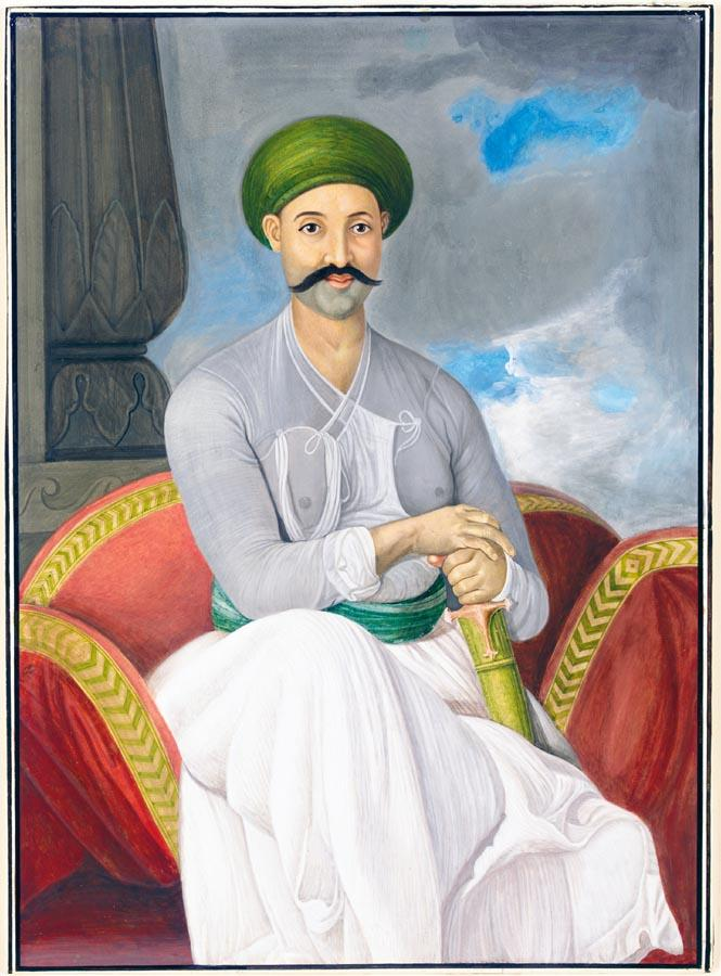 "A PORTRAIT OF PRINCE MIRZA JAWAN BAKHT, COMPANY SCHOOL, LUCKNOW, INDIA, CIRCA 1786; watercolour and gouache on card, with a seated figure dressed in white with green waist sash and turban, holding a sheathed sword, unframed; inscriptions: in ink on the reverse in Urdu: 'the likeness of Mirza Jewan Bakht"